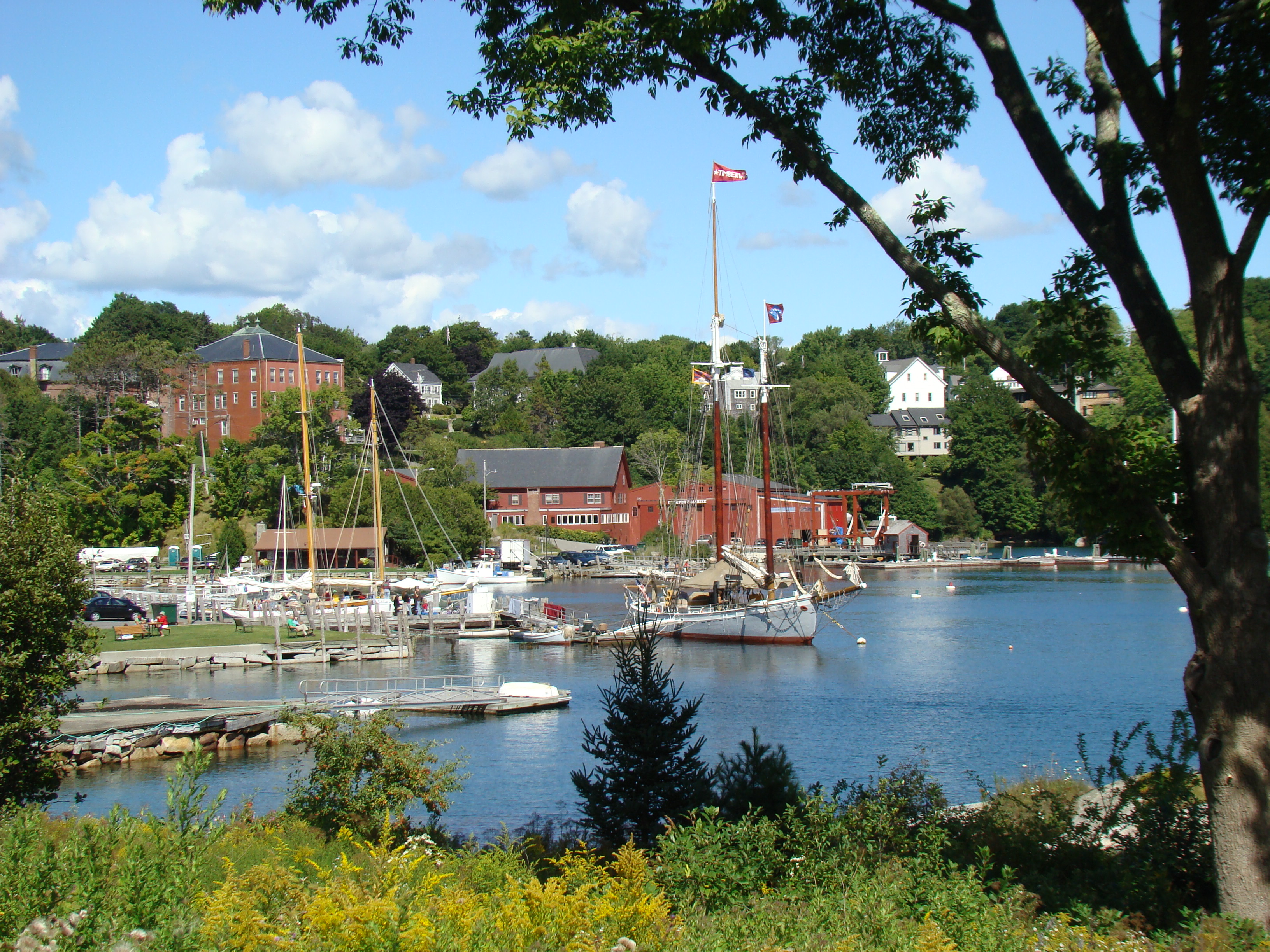 Shot of Rockport Harbor, Rockport Maine